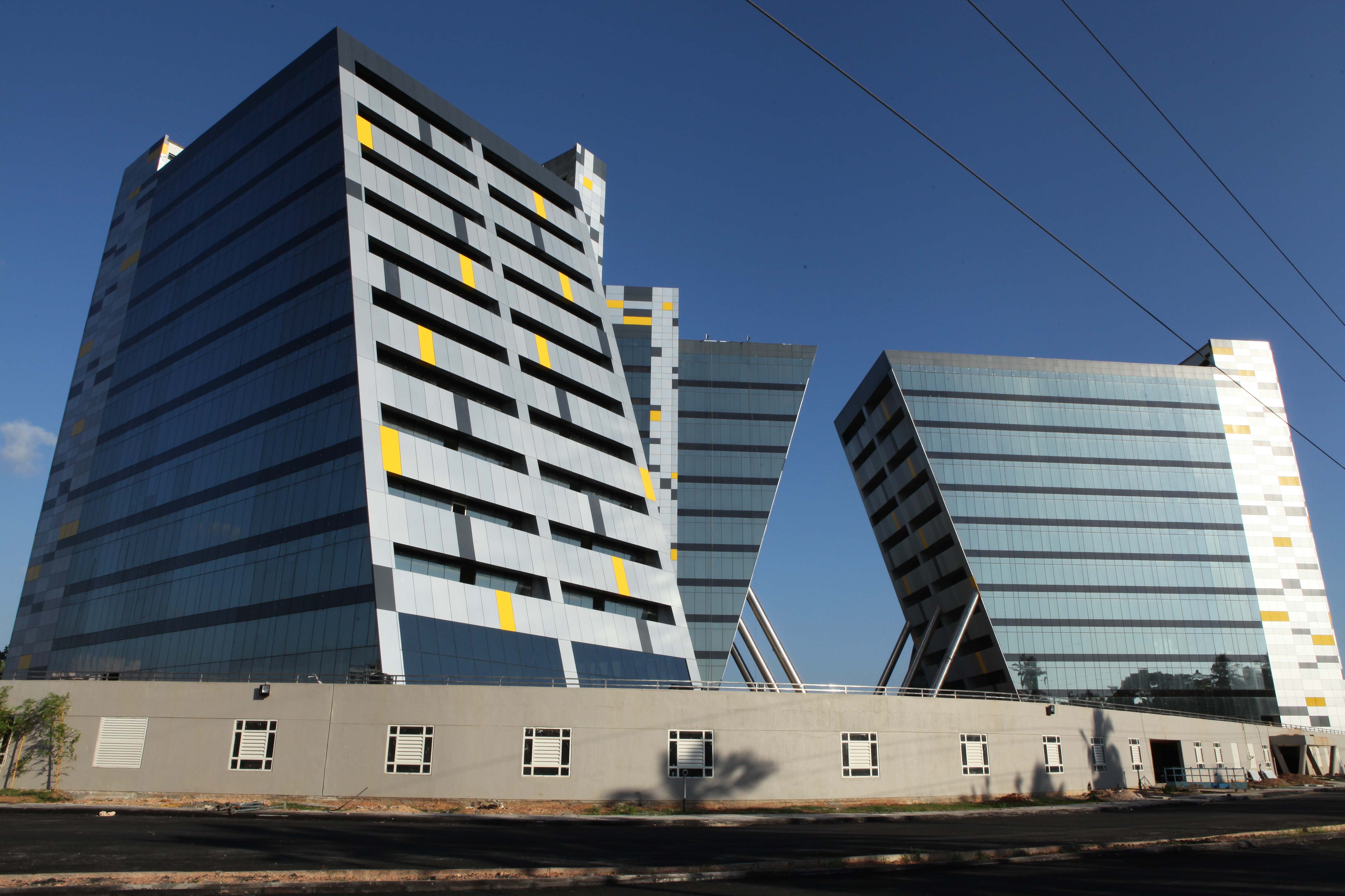 Technopark Phase III buildings GANGA & YAMUNA just before the inauguration.